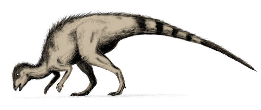 Hypsilophodon, pencil drawing